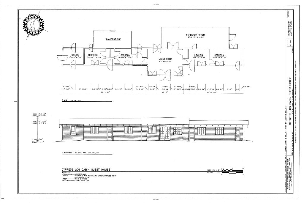 Cypress Log Cabin Guest House, elevations, Century of Progress, Beverly Shores, Indiana